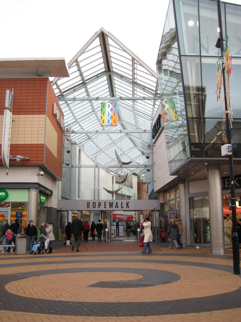 The Queen's Road entrance to the Ropewalk shopping centre, Nuneaton.